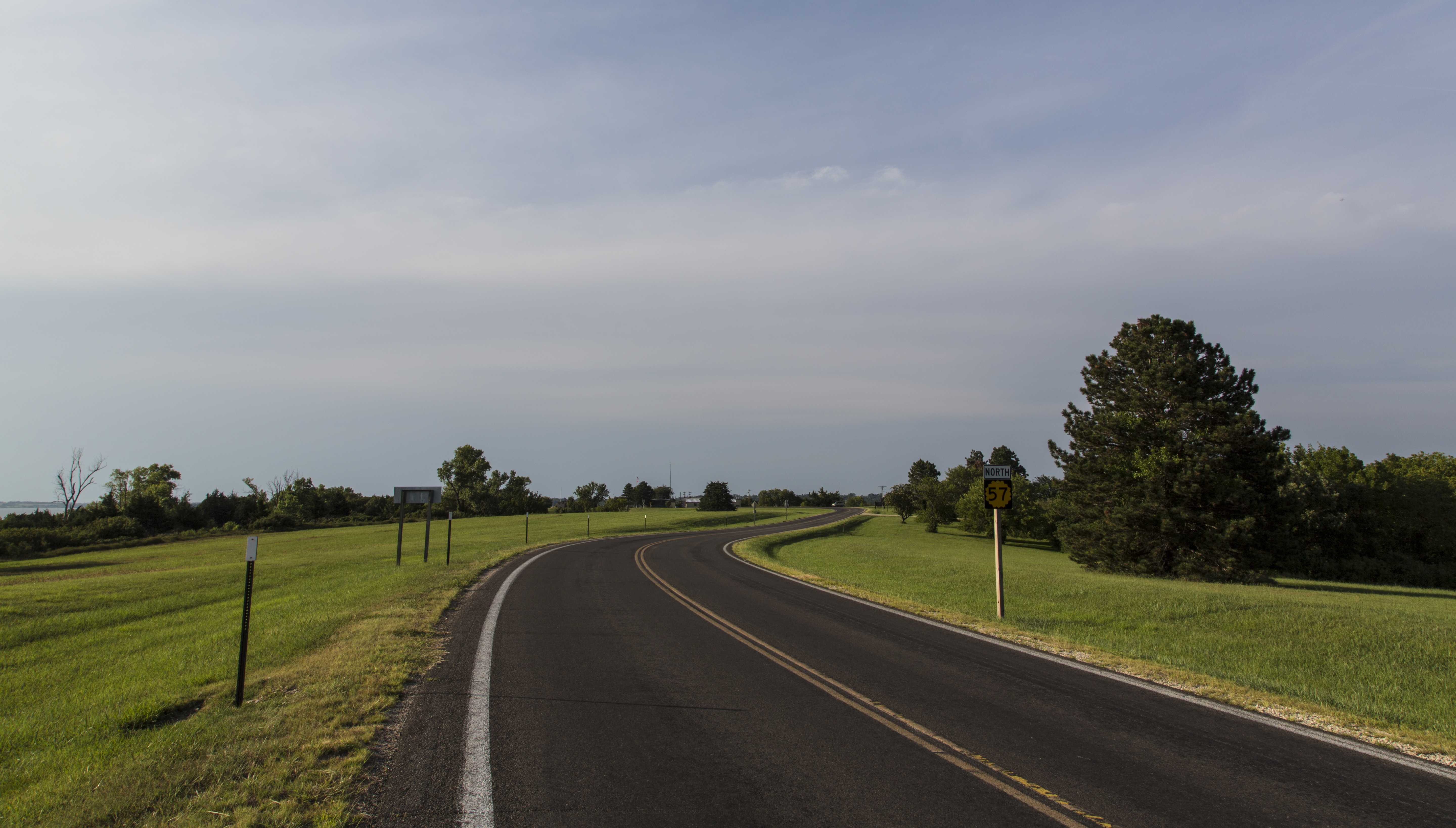 Kansas highway 57 looking north in Milford State Park